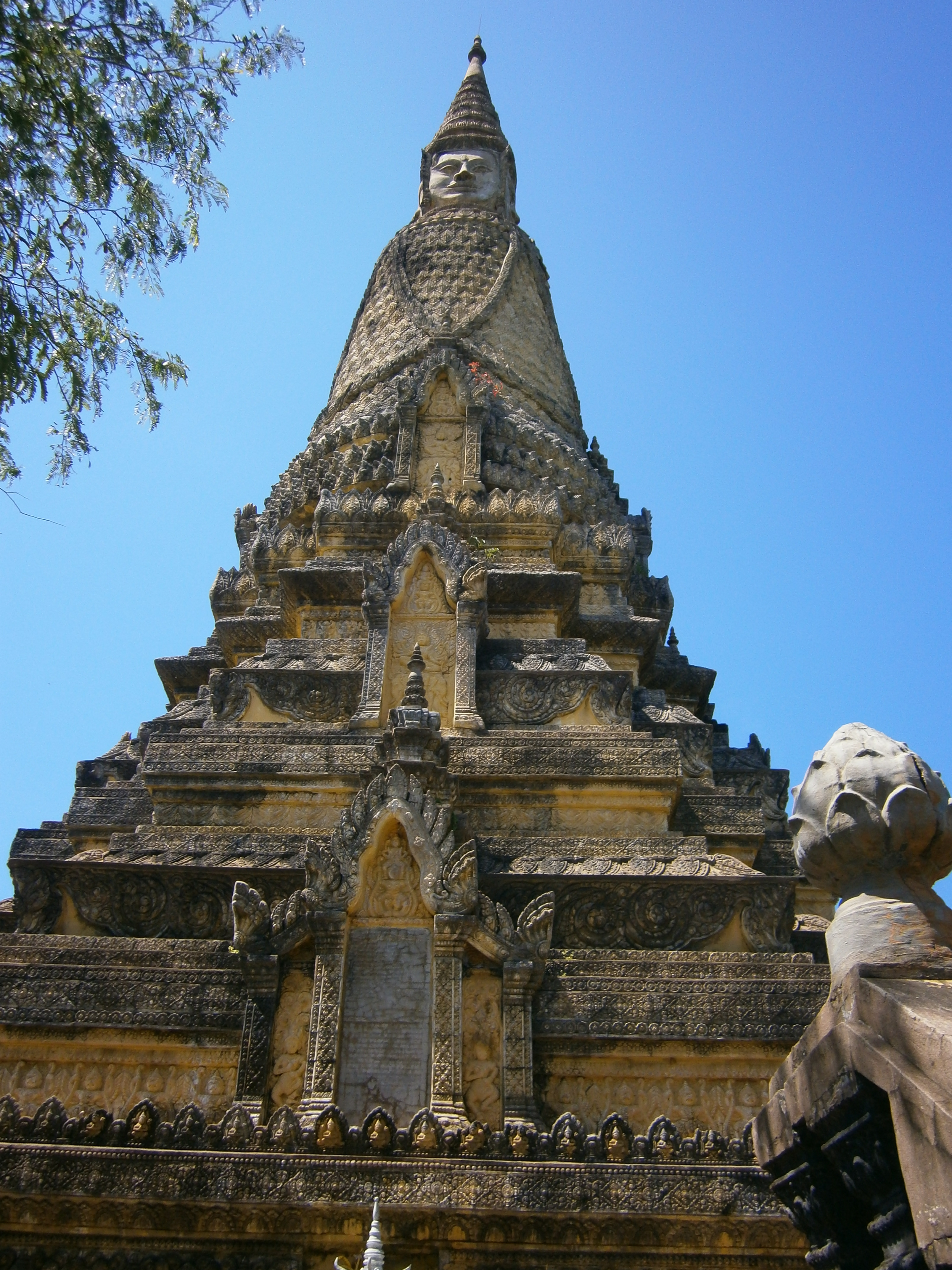 Stupa of King Sisowath Monivong in Oudong, Kingdom of Cambodia